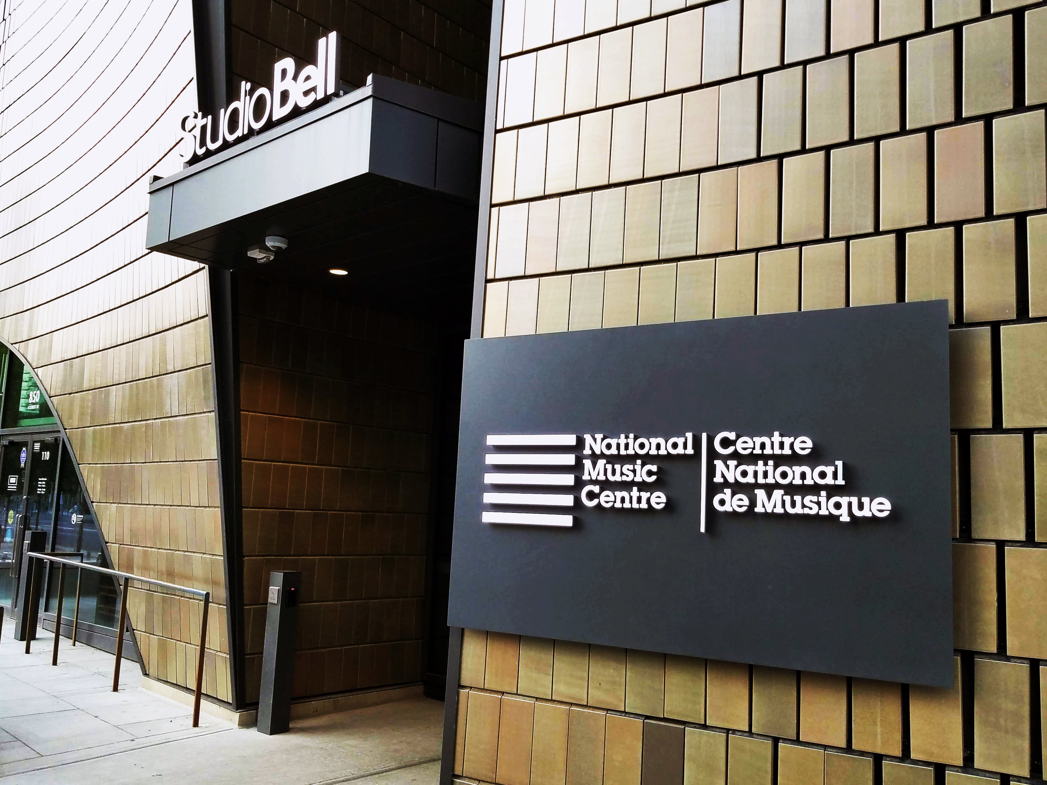 Studio Bell home of the National Music Center